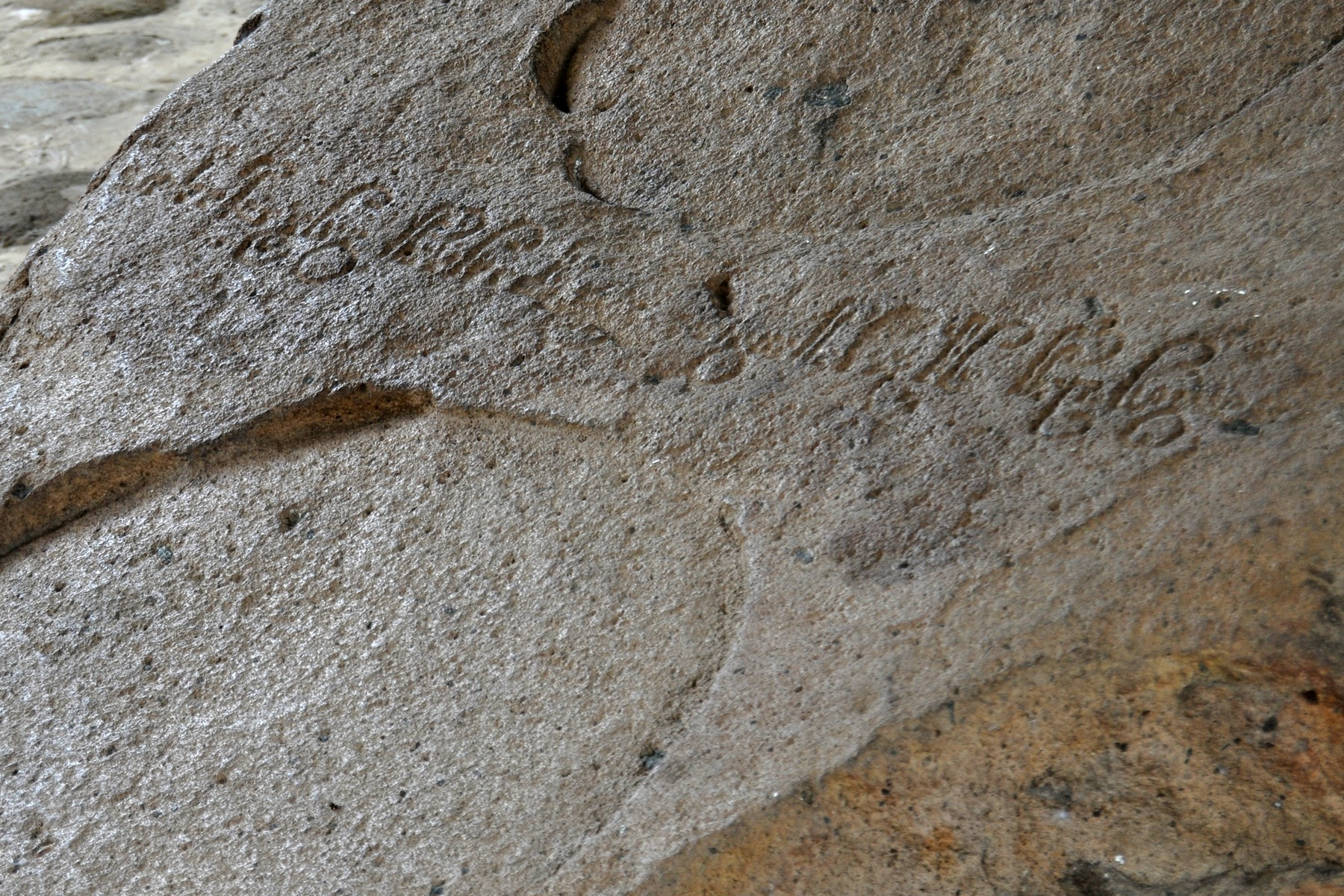 Kebon Kopi I inscription at Pasir Muara; now Ciaruteun Ilir village in the District of Cibungbulang, Bogor Regency, West Java, Indonesia.